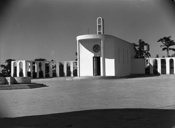 Church of Massah (Luigi Razza Town) (1940)